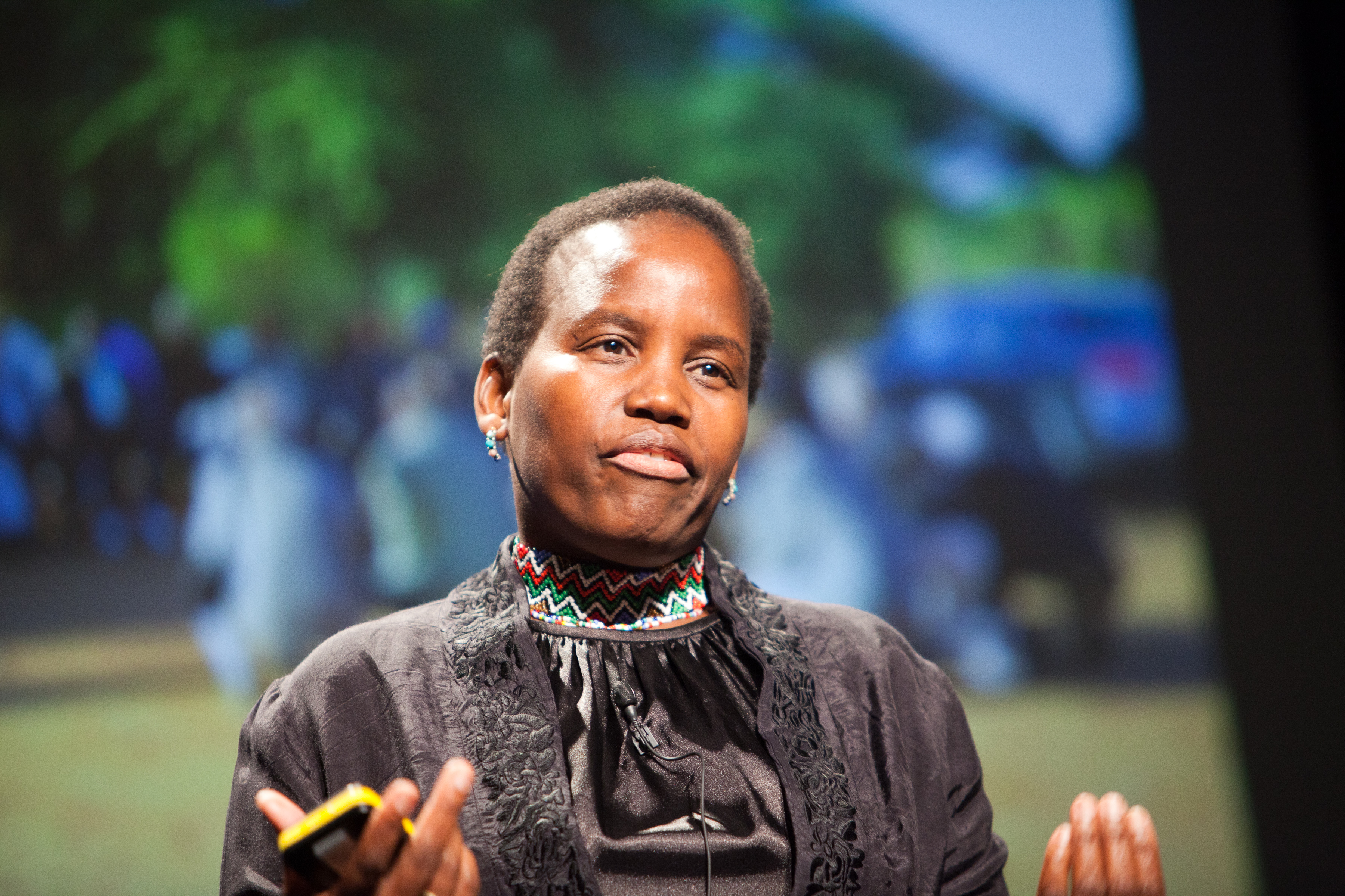 Unity Dow speaks about Africa's need to "reclaim its sense of self", and assert its own evolving identity instead of yielding to existing dominant cultural systems photo by Kris Krüg for PopTech